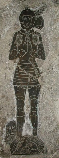 Brass monument to Thomas Beckingham (died 1431) in the choir of St Mary's parish church, North Leigh, Oxfordshire